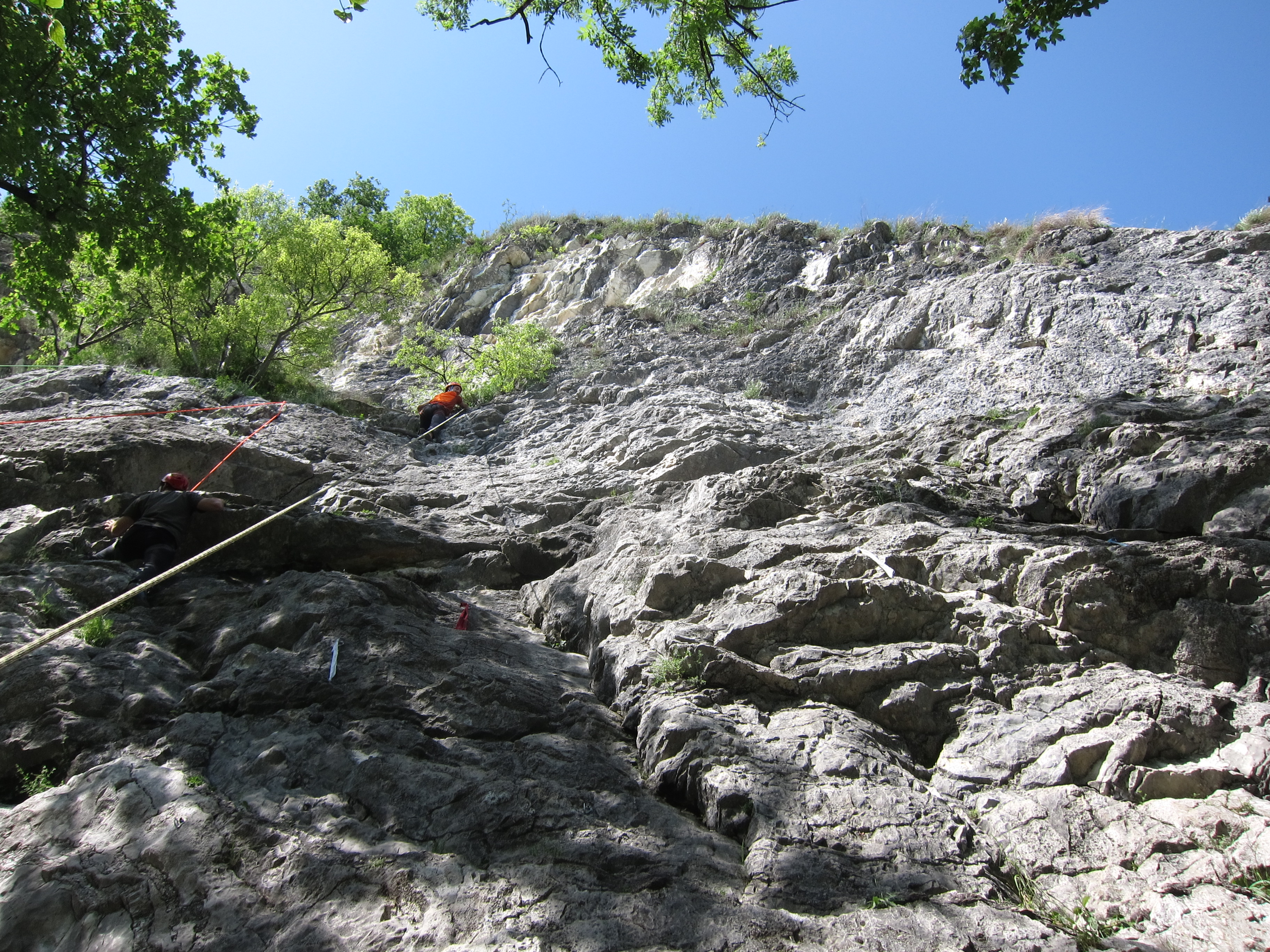 Limestone rock wall prepared with blots and fixed belay for purpose of rock sport climbing. The cliff named "Falesia del Picuz" is located in the town Sangiano, (Varese, Italy). Picture was taken on the 6th of May 2018. 2018-05-06